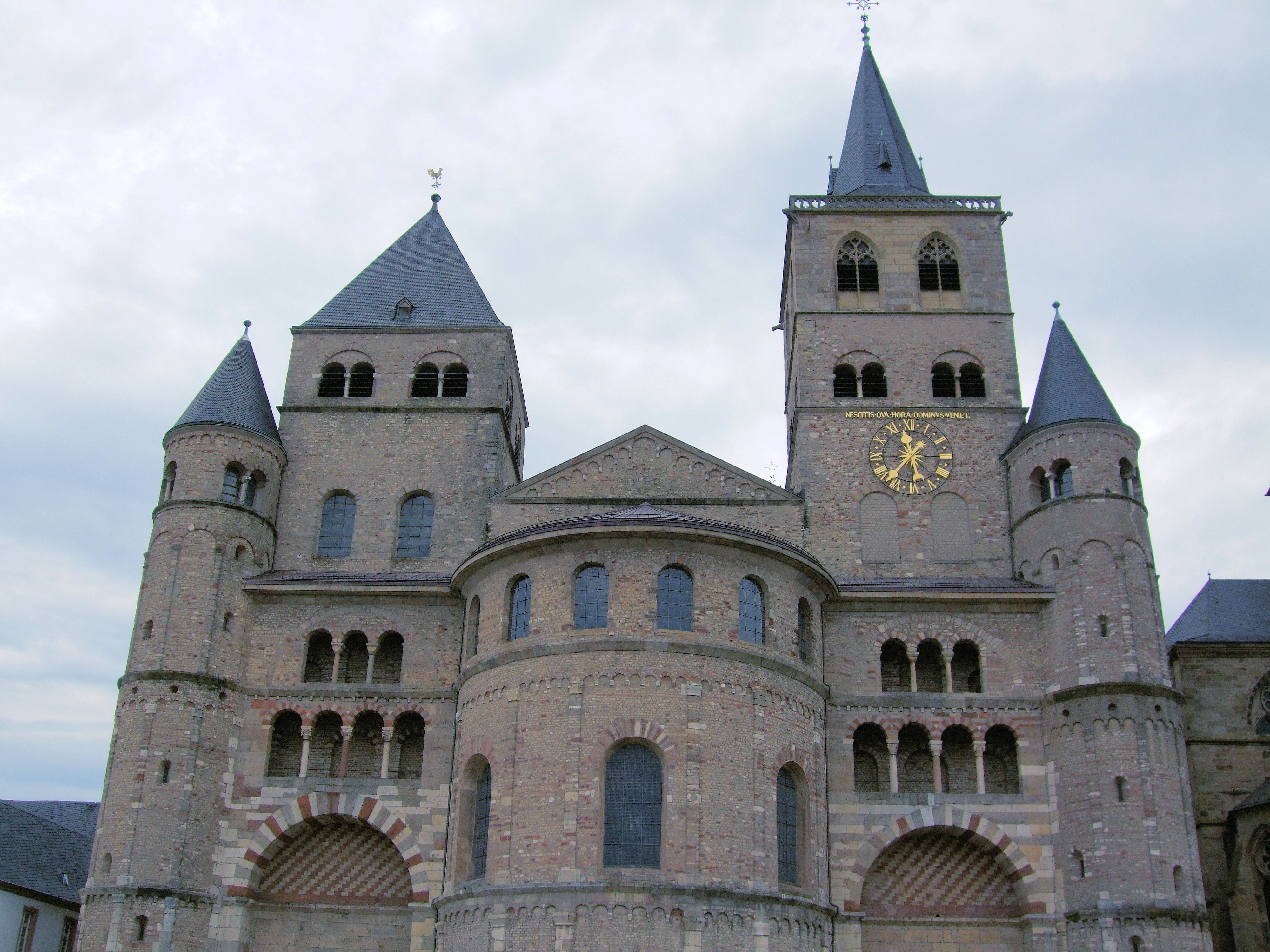 The Cathedral of Saint Peter, Trier, the seat of the Roman Catholic Bishop of Trier, in the Rhineland-Palatinate, is the oldest cathedral in Germany.